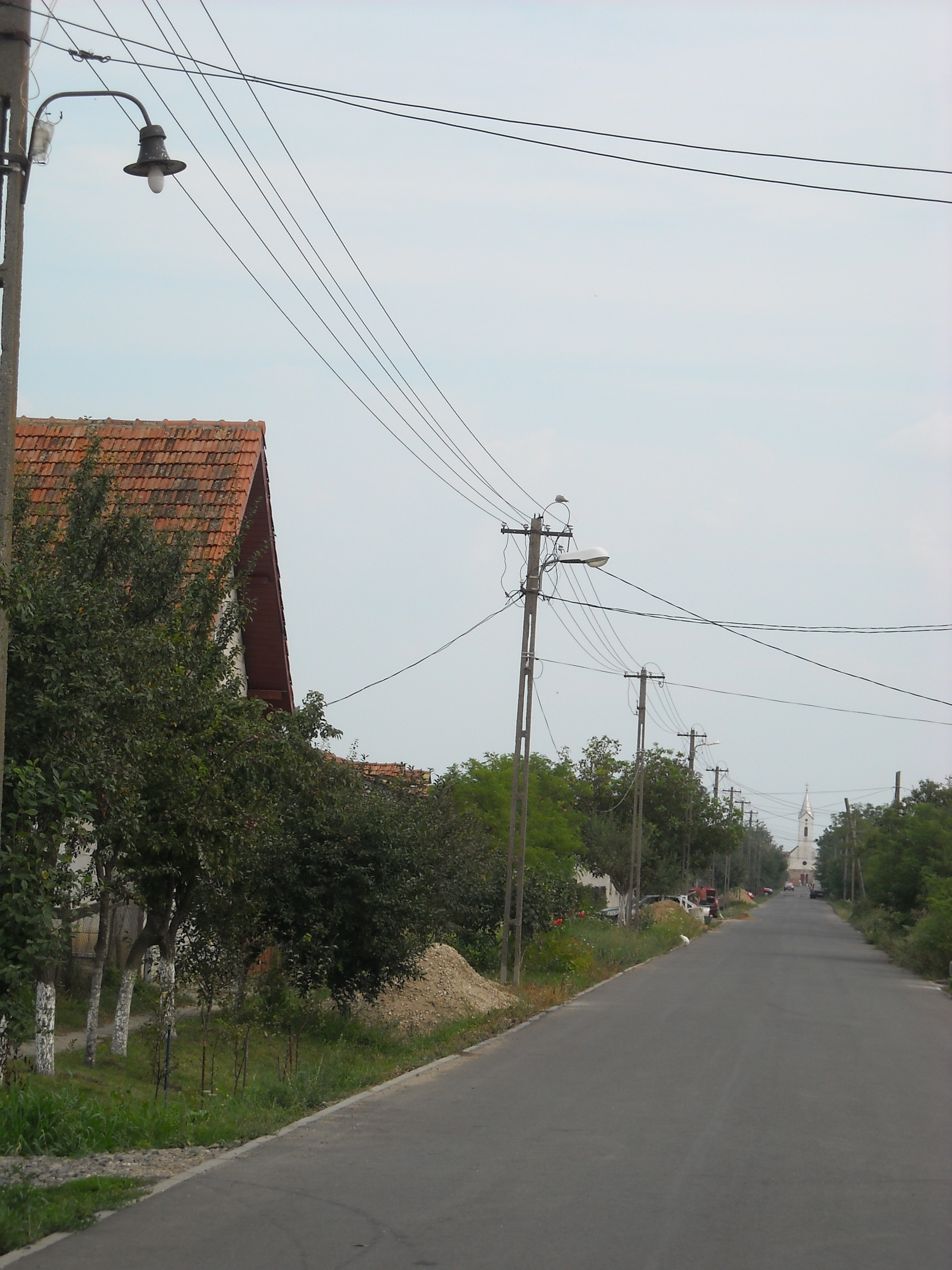 Nagyvarjas/Variaşu Mare in Arad County, Romania